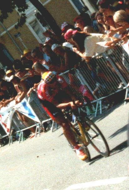 Jacky Durand, Individual time trial Freiburg Mulhouse, Tour de France 2000